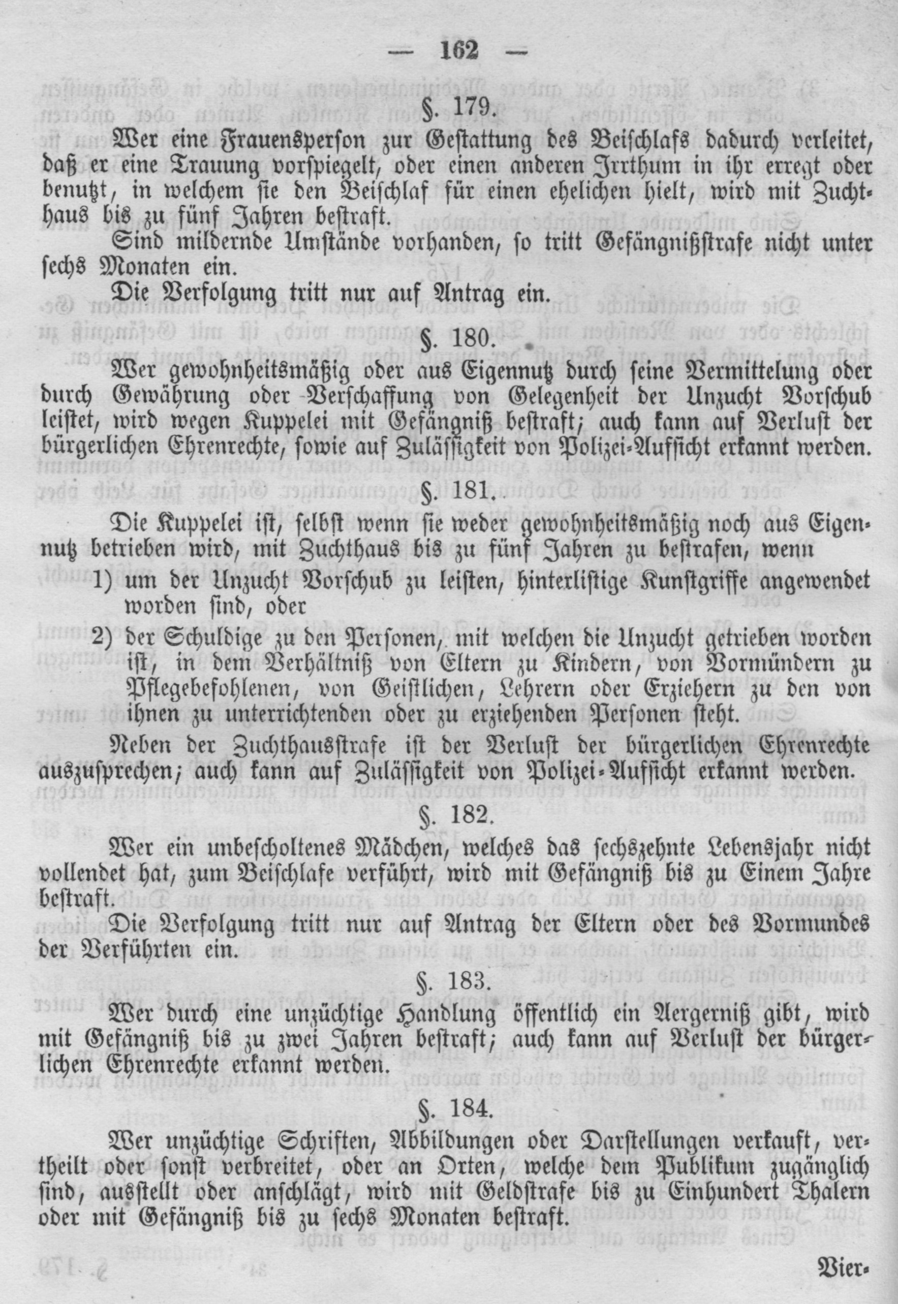 Scan from the Imperial Law Gazette of Germany, 1871